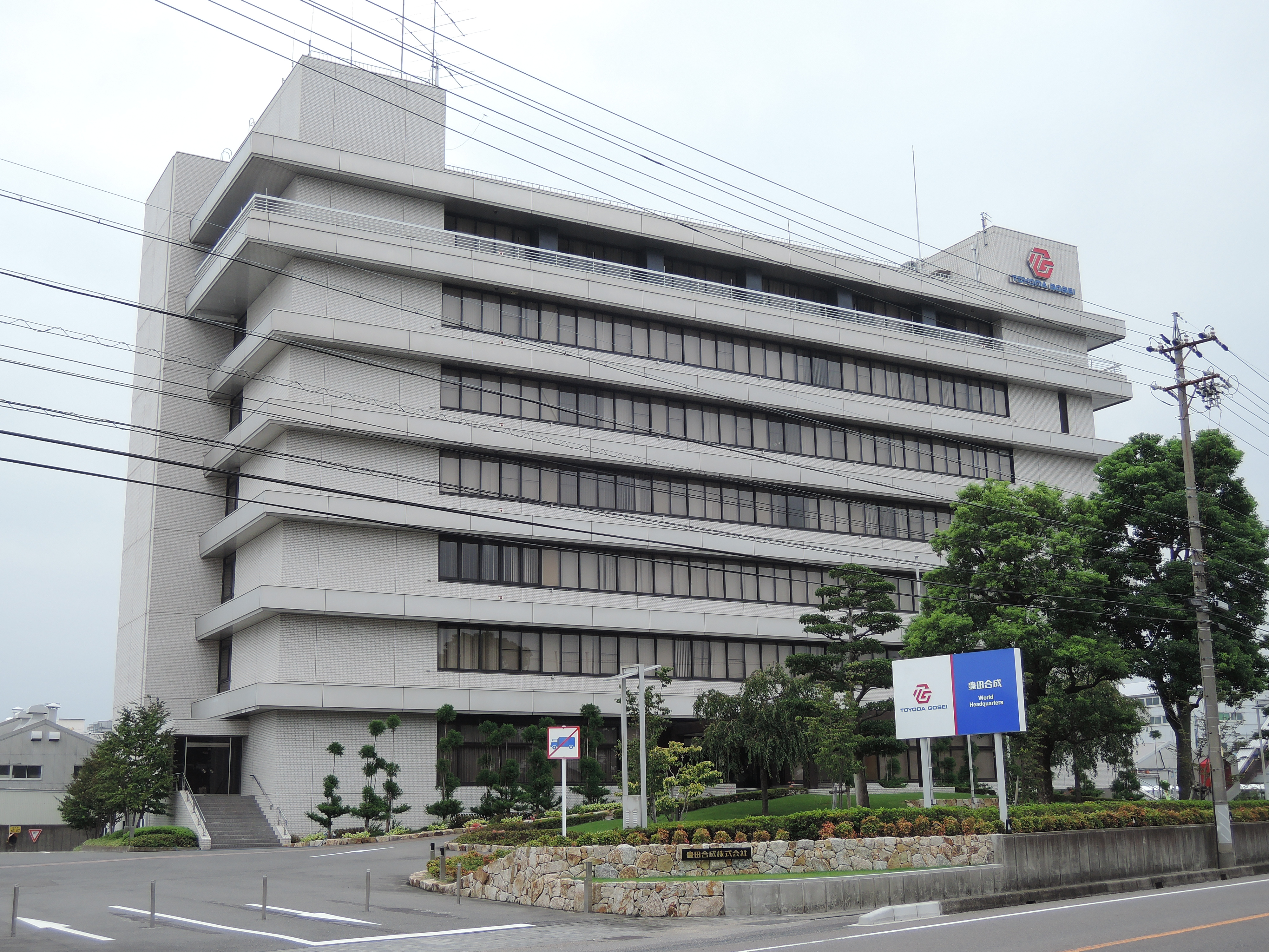 Headquarters of TOYODA GOSEI CO., LTD.,Aichi prefecture,Japan